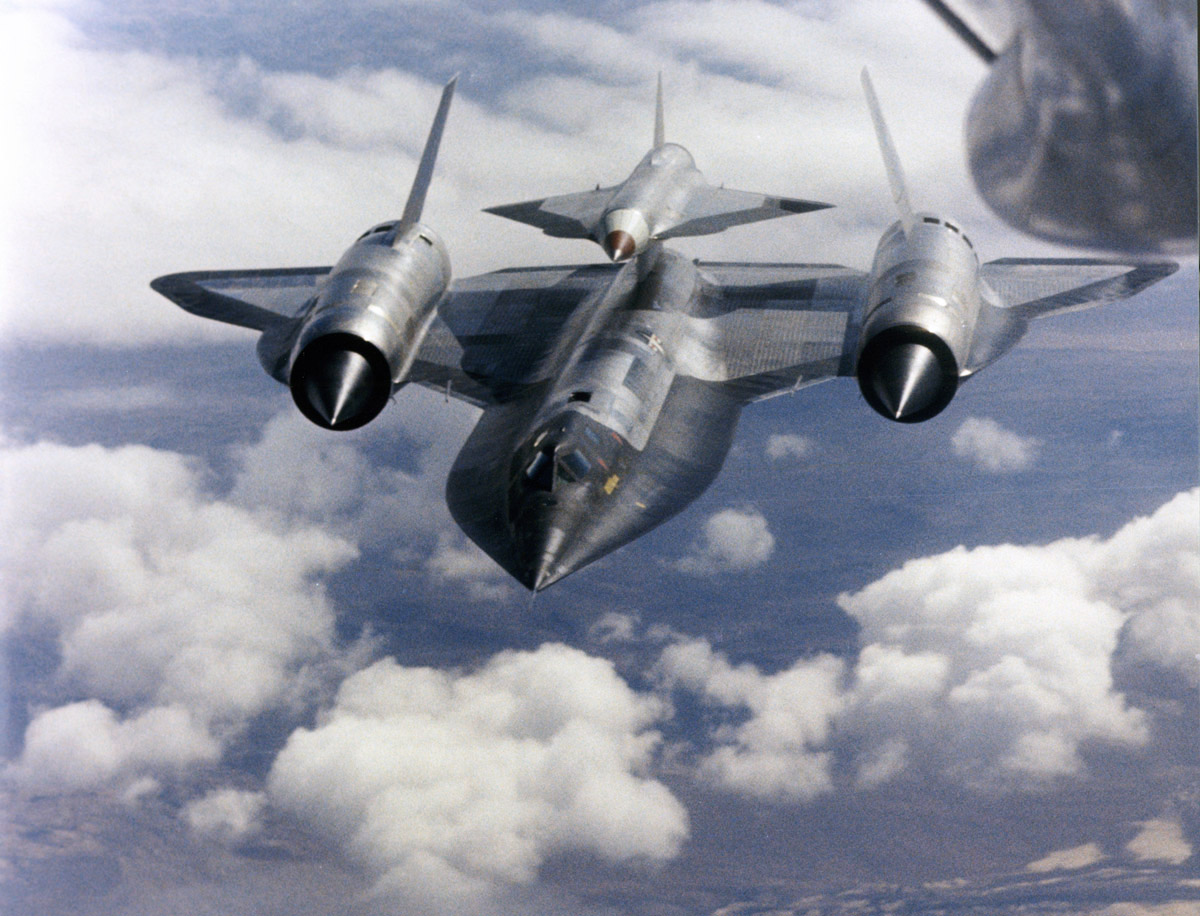 Modified A-12 (codename M-21) carrying D-21 drone (Project Tagboard)